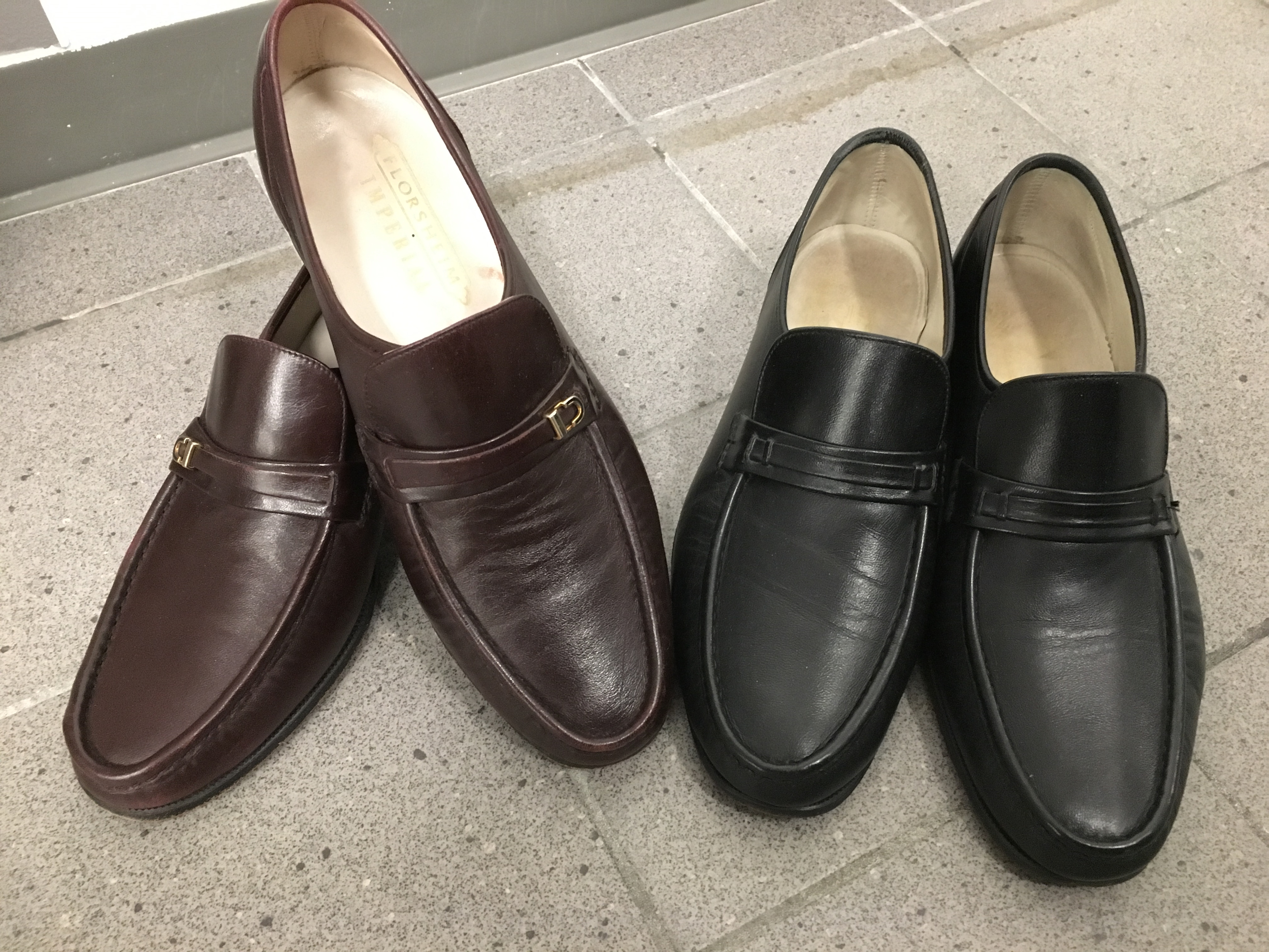 Two pairs of loafer shoes from the american shoe maker Florsheim Shoes.